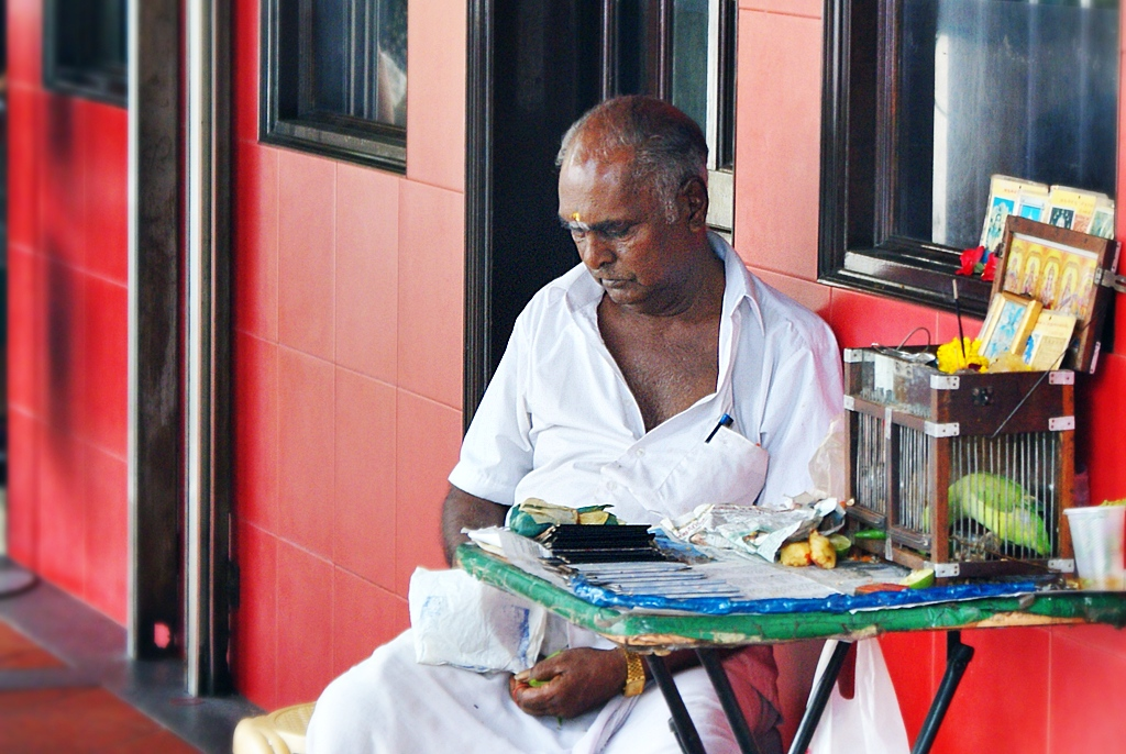 Fortune teller along Serangoon Road (also known as Little India) in Singapore